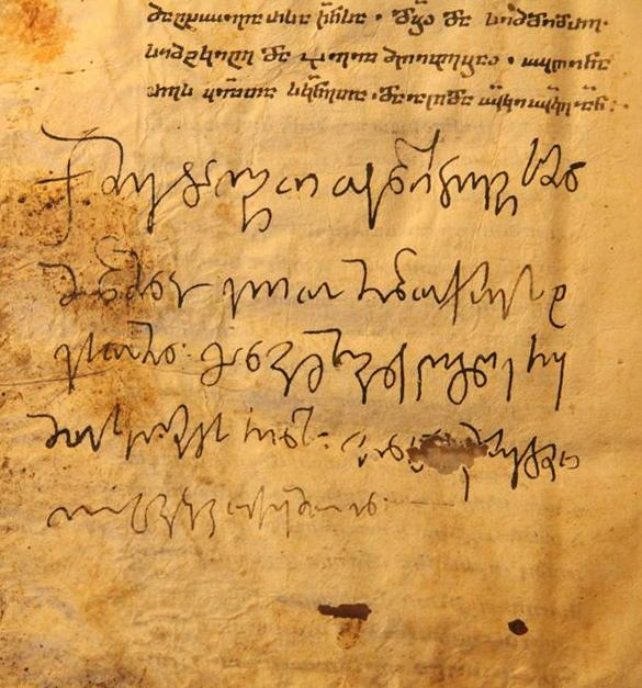 Autograph of Georgian King David IV Aghmashenebeli Mount Sinai. Saint Catherine's Monastery. Georgian Manuscript ქ. მე დავით უნარჩევესმან მონამან ჴელითა მონითა ქრისტესთა მან გავგზავნე წიგნი ესე მთას წმიდას სინას ვინც მოიხმარებდეთ ლოცვა ყავთ ჩემთვინ.